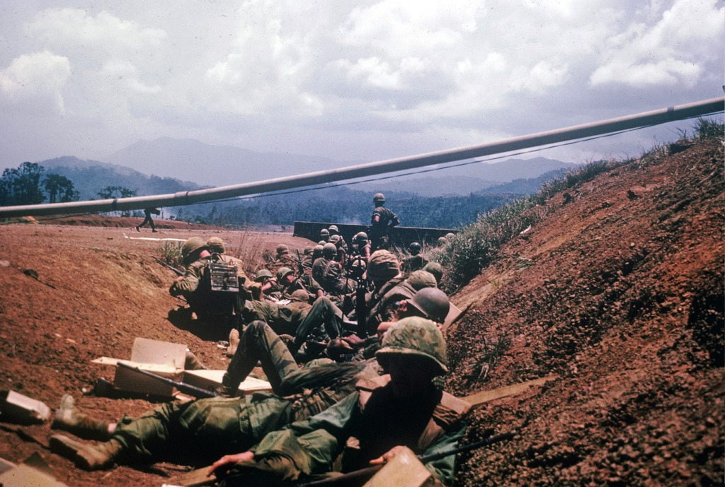 This photograh was taken by a U.S. soldier during the battle of Kham Duc; soldiers of Company A, 70th Engineer Battalion, waiting to be airlifted out of Kham Duc.